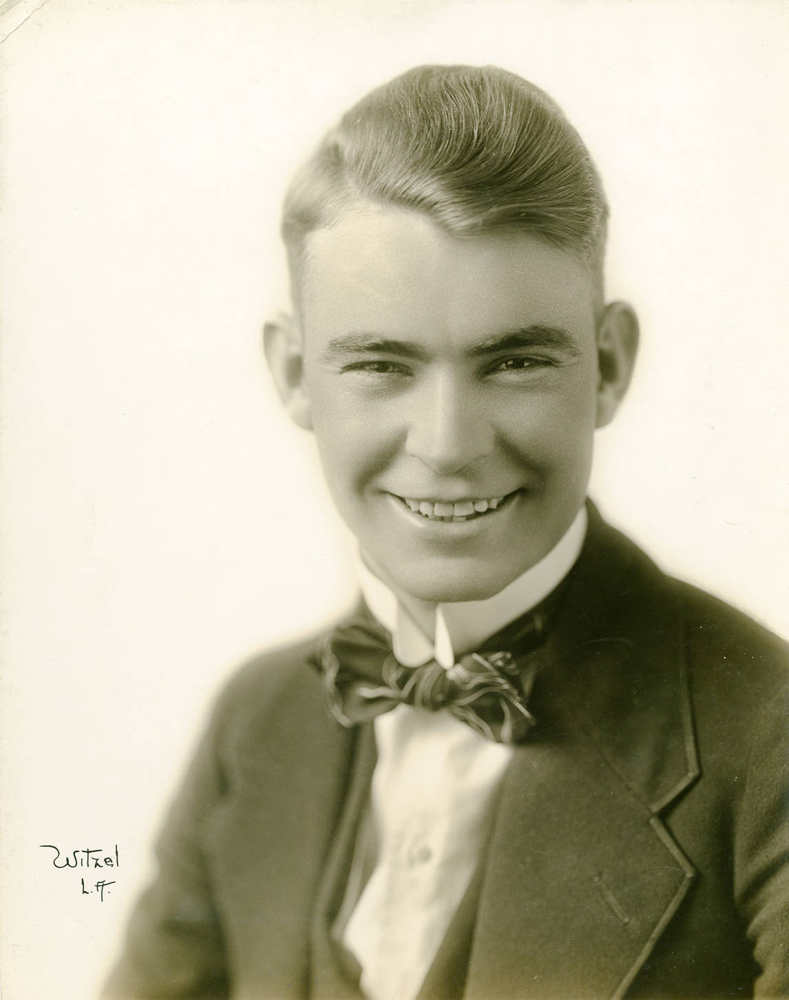 F. Richard Jones, director of silent films Subjects: actors